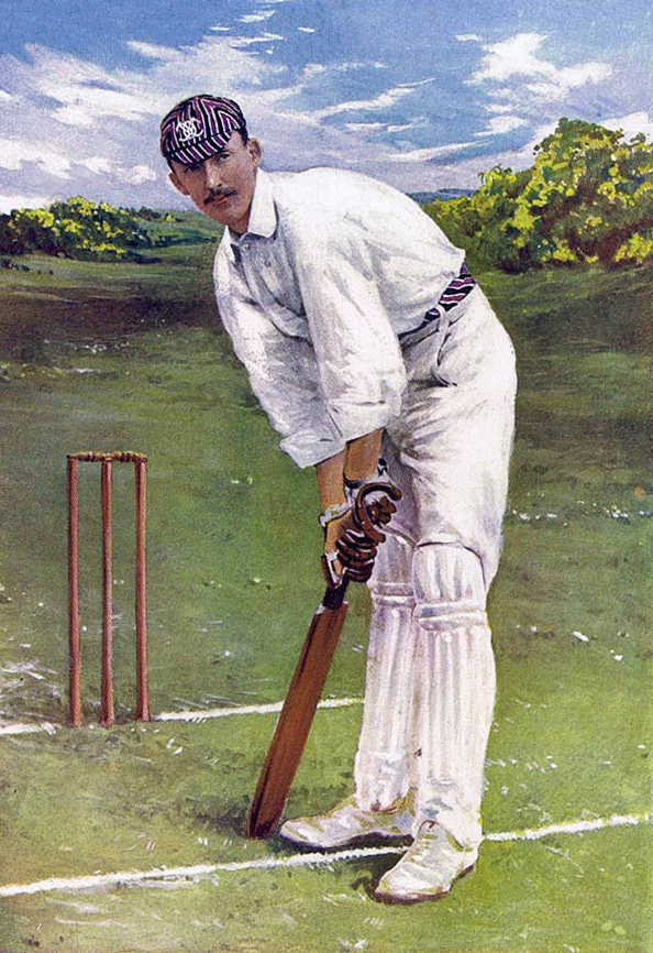 Lionel Palairet, Somerset amateur cricket, from Cricket of Today and Yesterday (1902)